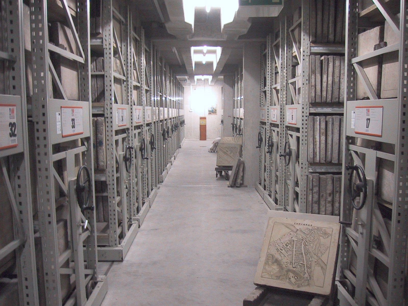 Archive of the Landesamt für Vermessung und Geoinformation, containing a couple of hundred tons of stone litography plates with maps of Bavaria. Picture taken as part of the Lange Nacht der Museen in Munich.